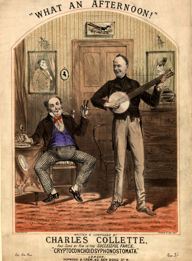 Scan of cover of original sheet music for the hit song "What an afternoon", sung by Charles Collette, published 1875.